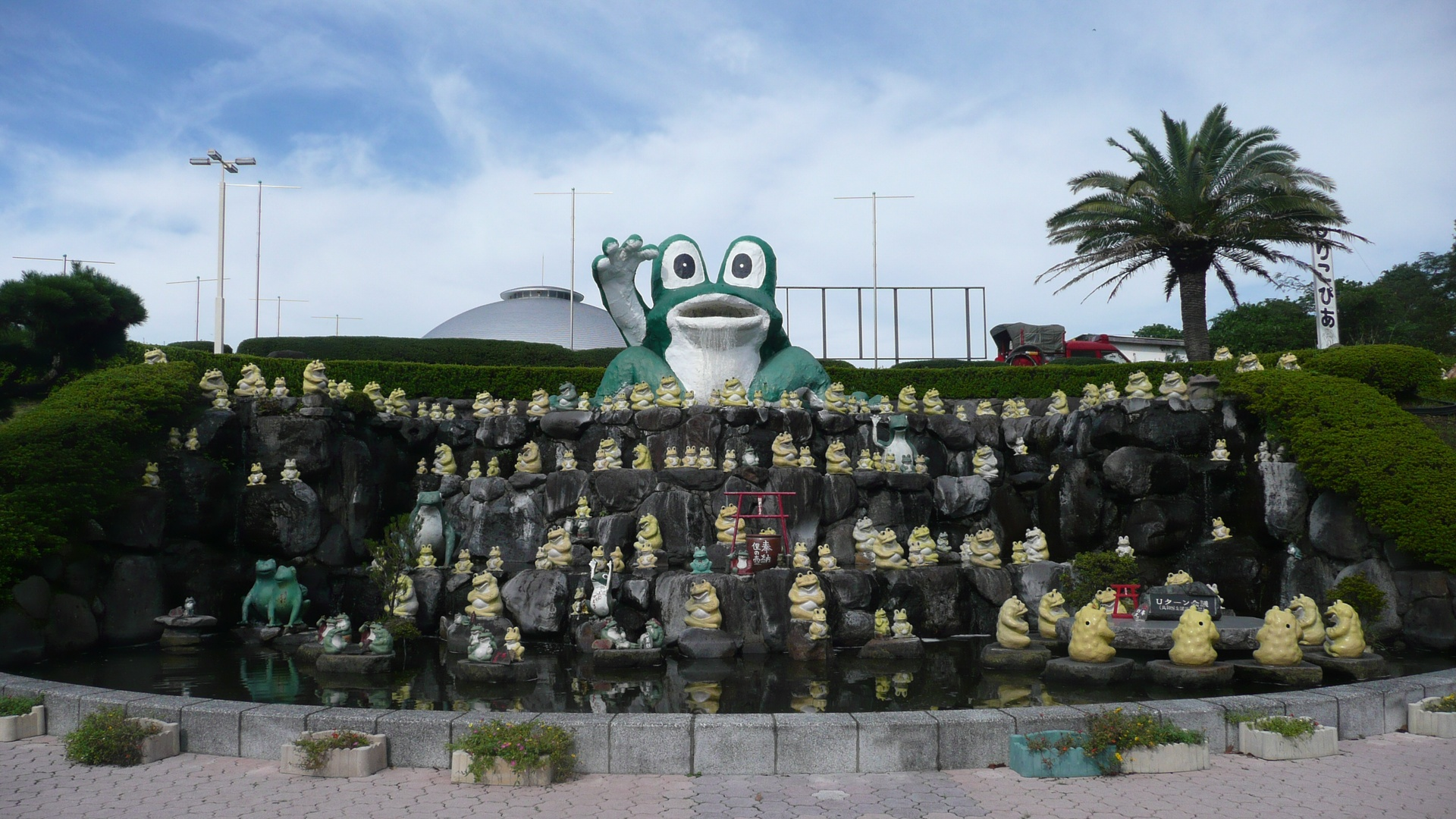 Nojirikopia (Nojiri, Kobayashi City, Miyazaki, Japan